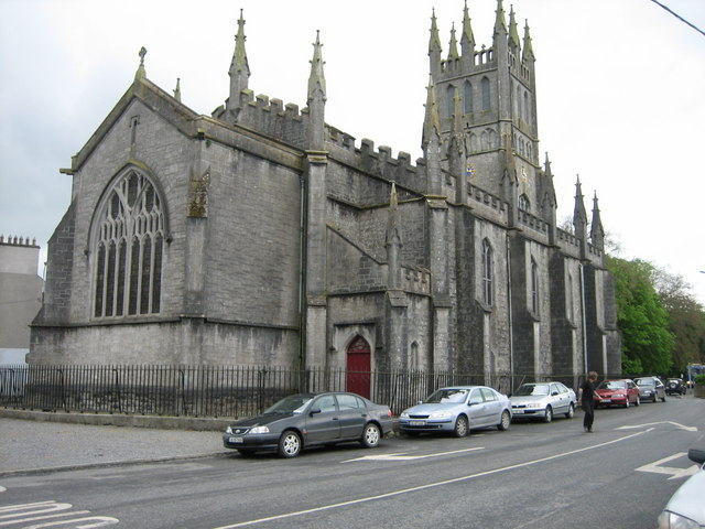 St Brendan's, Birr. Church of Ireland parish church.